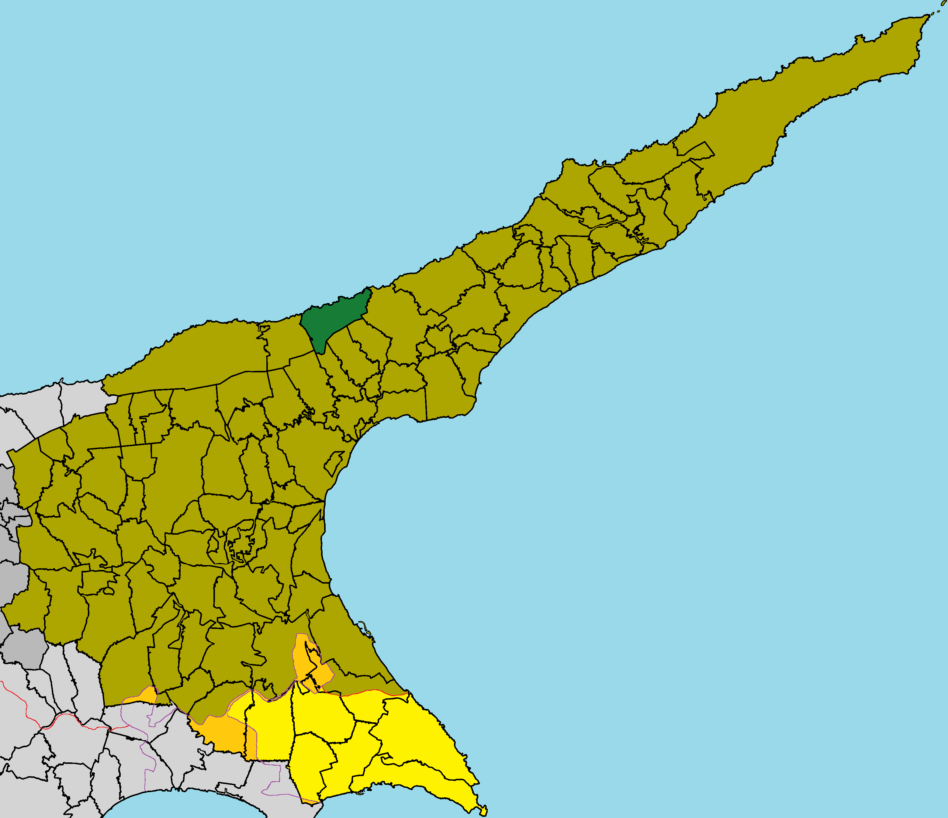 Davlos in Famagusta District (de jure).